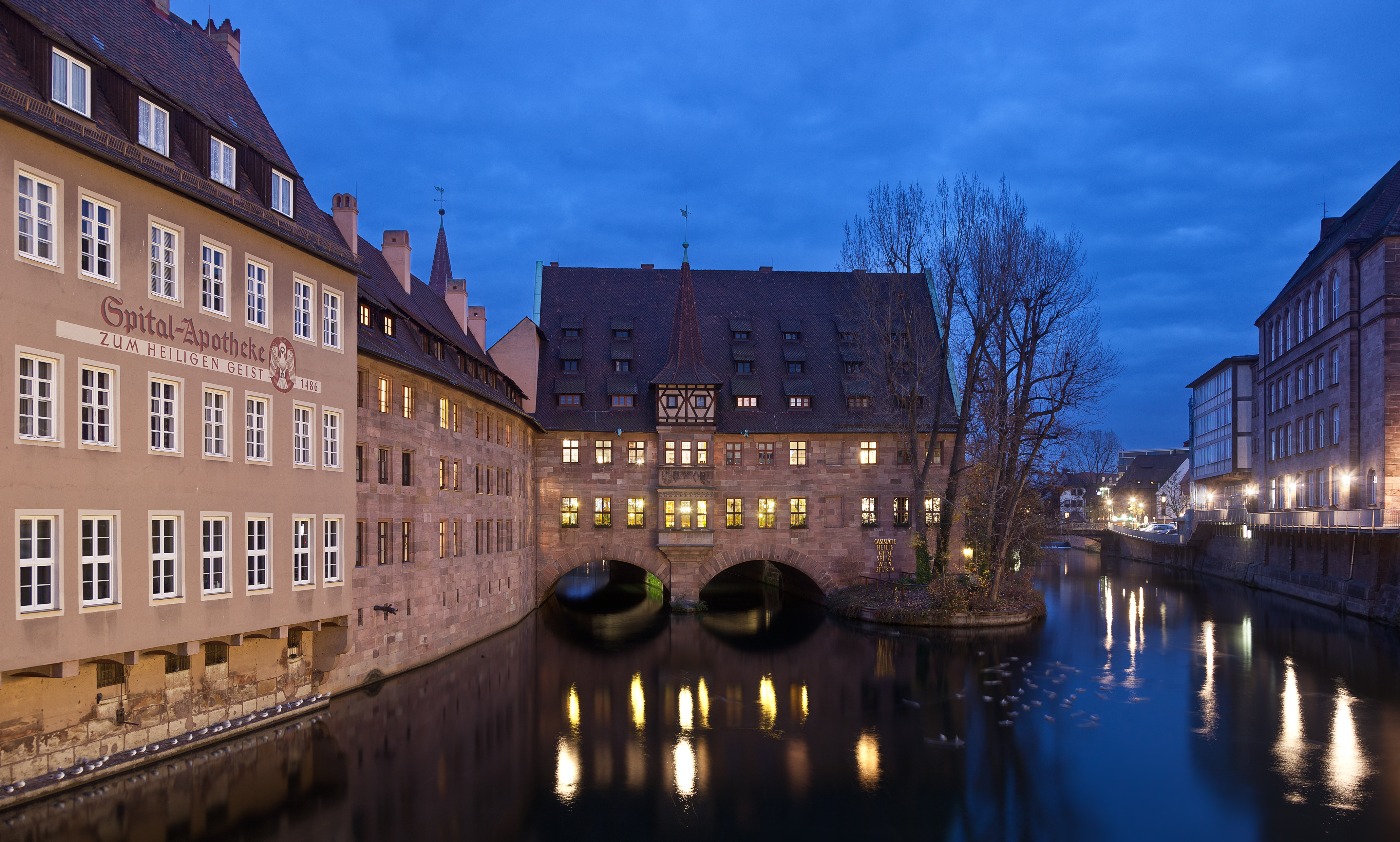 Heilig-Geist-Spital in Nuremberg, Germany